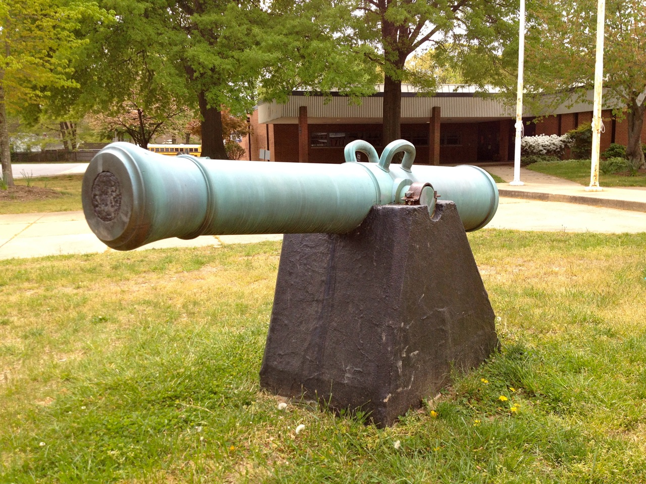 Historic cannon in front of the former Fort Hunt High School in Alexandria, Virginia, United States